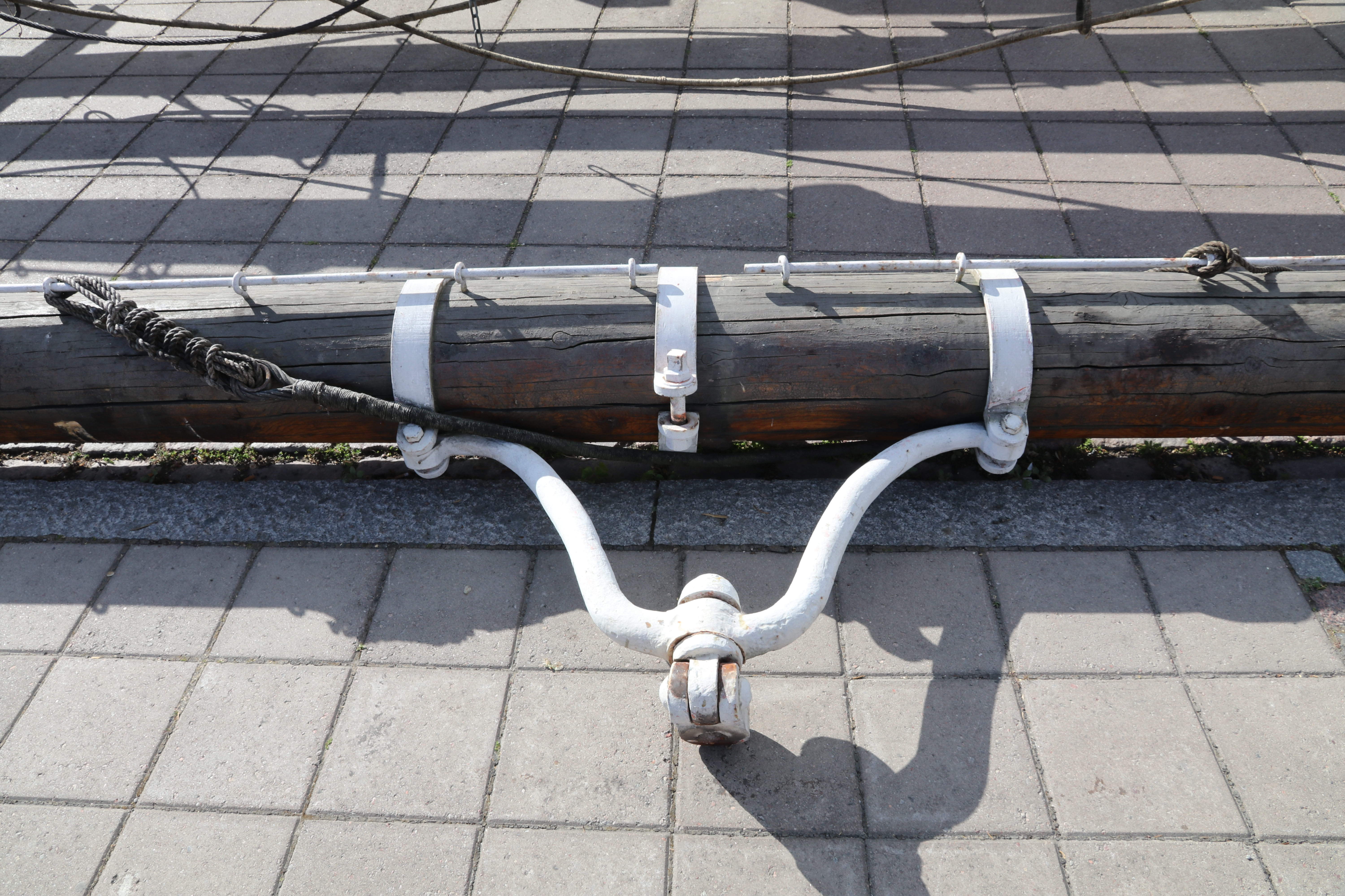 Yards and other rigging components of museum ship Sigyn waiting restauration works.